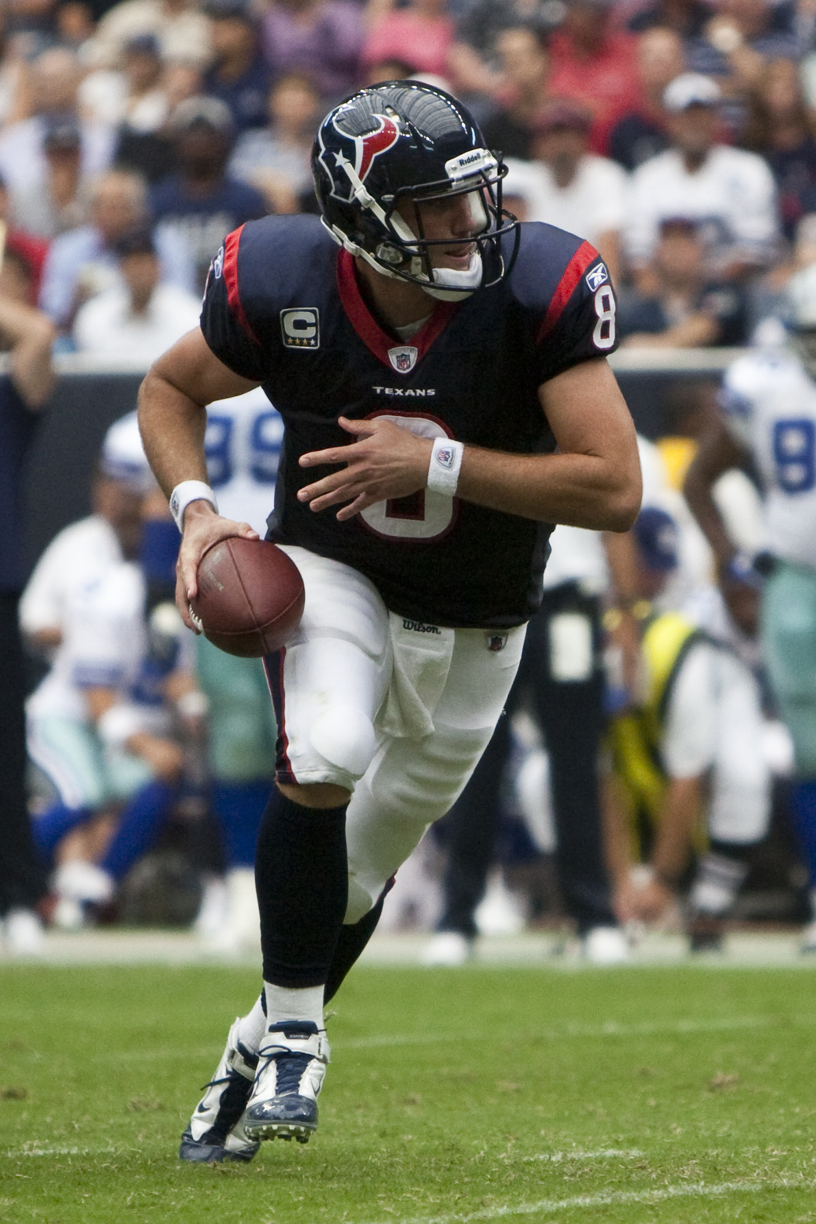 Matt Schaub of the Houston Texans Scrambles free of a collapsing pocket. Reliant Stadium. Houston, Tx. Sept. 26 2010.